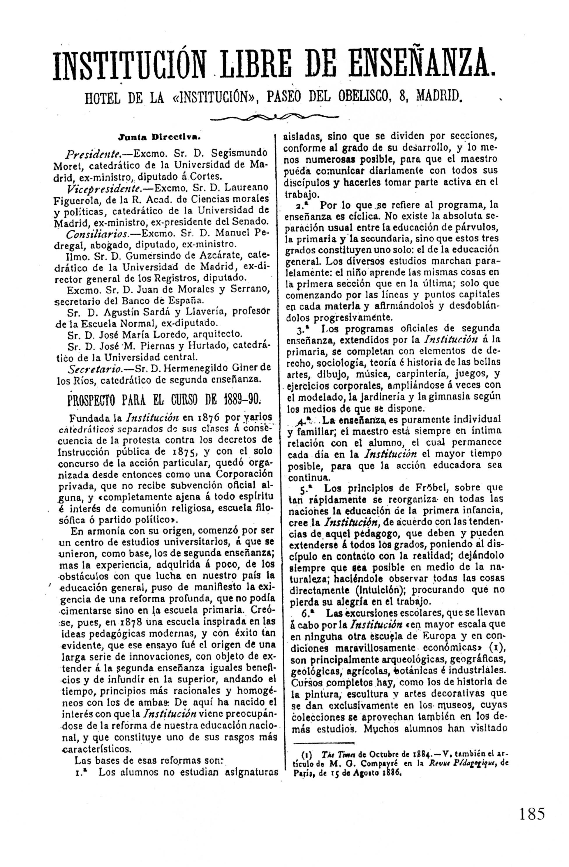 Institución Libre de Enseñanza. Announcement of the Board of Directors for the year 1889-1890.